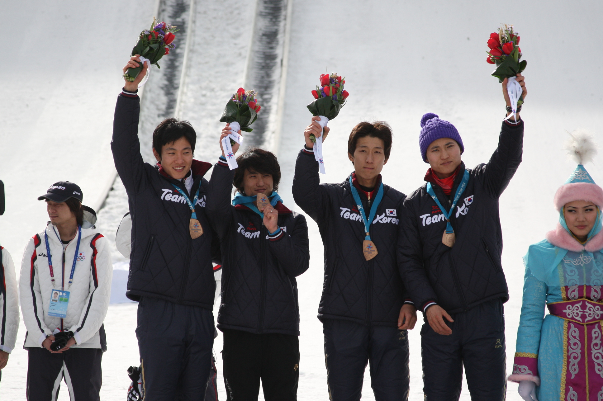 South Korean Ski Jumping National Team during 2011 Winter Asian Games.